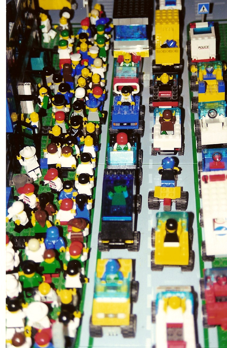 Many LEGO-people on the South Franklin Street in Lego-Chicago :-) Scene taken by myself when I was younger ;-) - scanned up